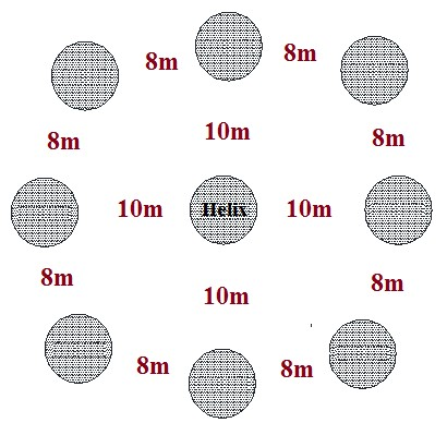 Circular configuration of spiral GHEs